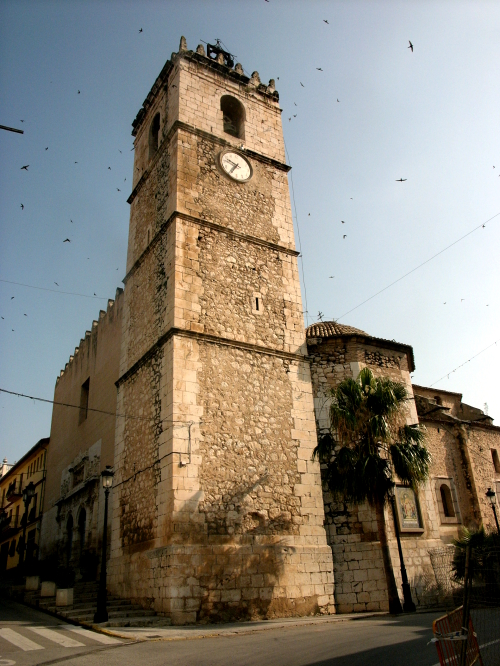 Church of Maria Magdalene in L'Olleria